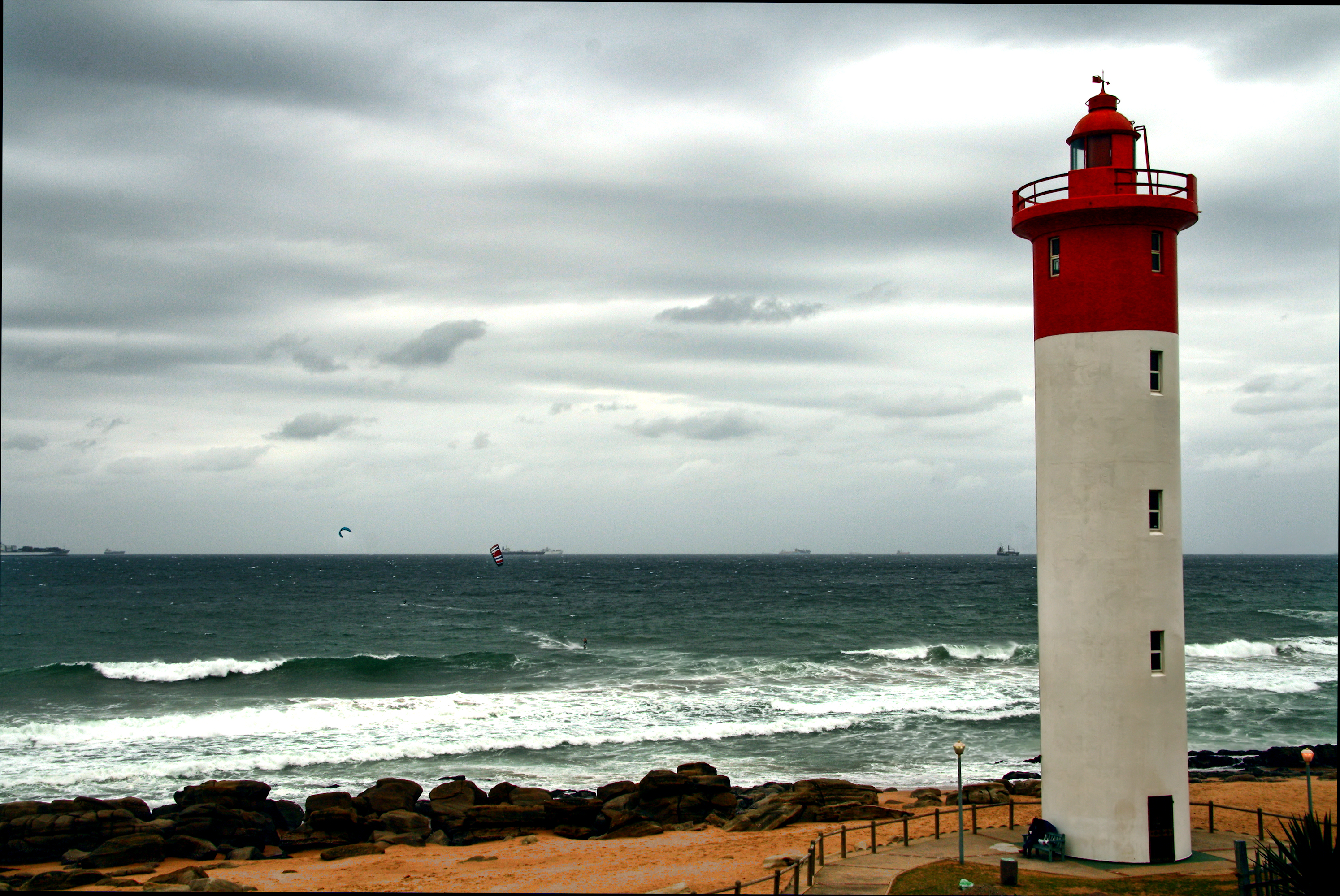 The Umhlanga Lighthouse was completed on November 24, 1954 and has since become an area landmark. The circular concrete tower, painted white with a red band at the top, stands 21m above the beach and has a focal plane height of 25m. The fixed red light enable a ship waiting to anchor in the outer anchorage to monitor its position if the red light can be seen, it suggests the ships anchors have probably dragged and is too close to shore. The lighthouse is situated near the end of Lighthouse Road in Umhlanga. .za/sugarcoast/about/2.xml